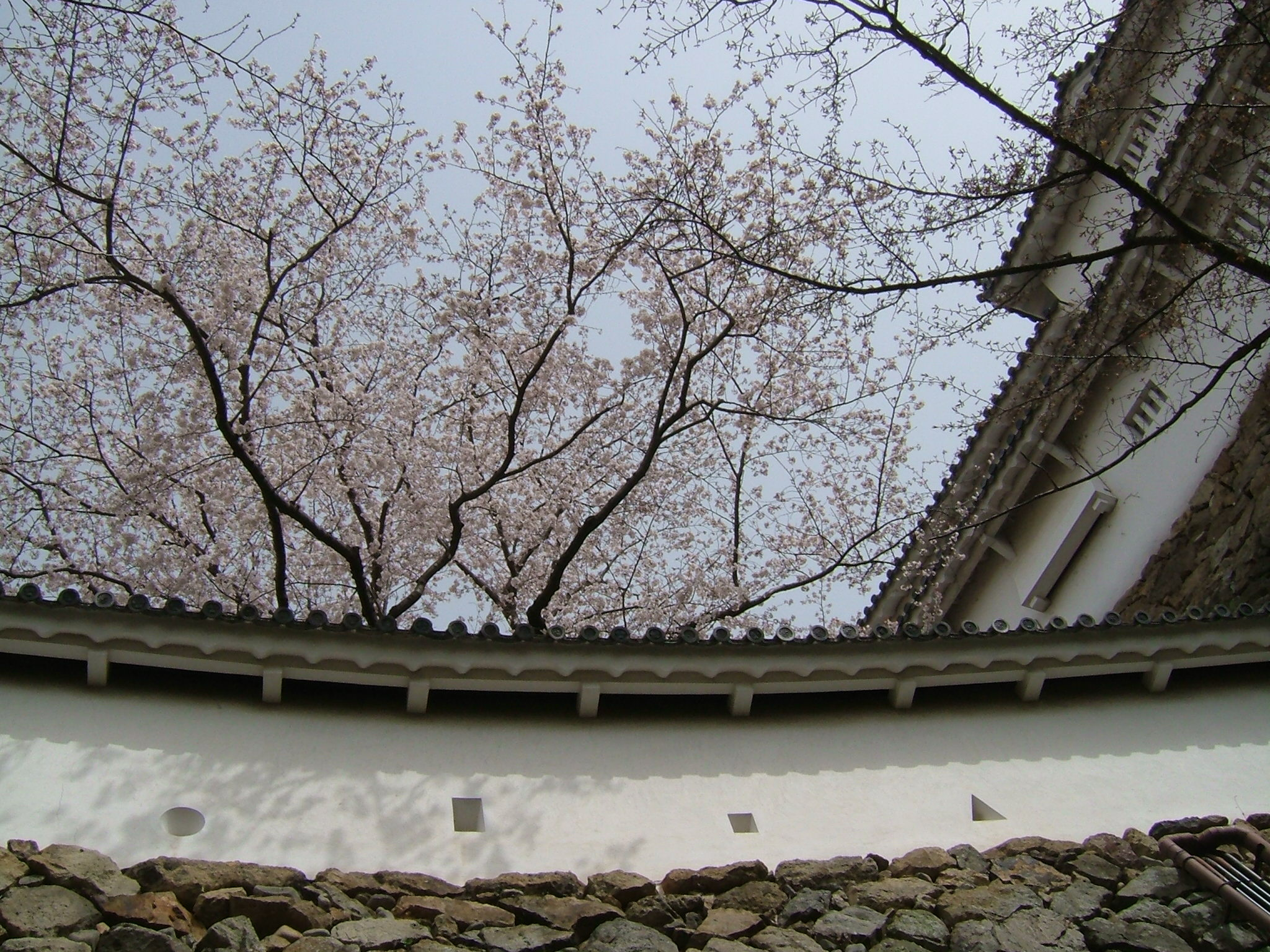 姫路城の狭間 Castle wall of Himeji Castle with Sakura